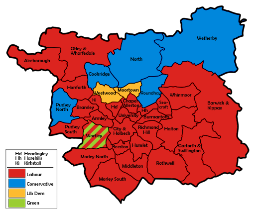 Ward map of Leeds City Council with political colouring for the 1998 election.